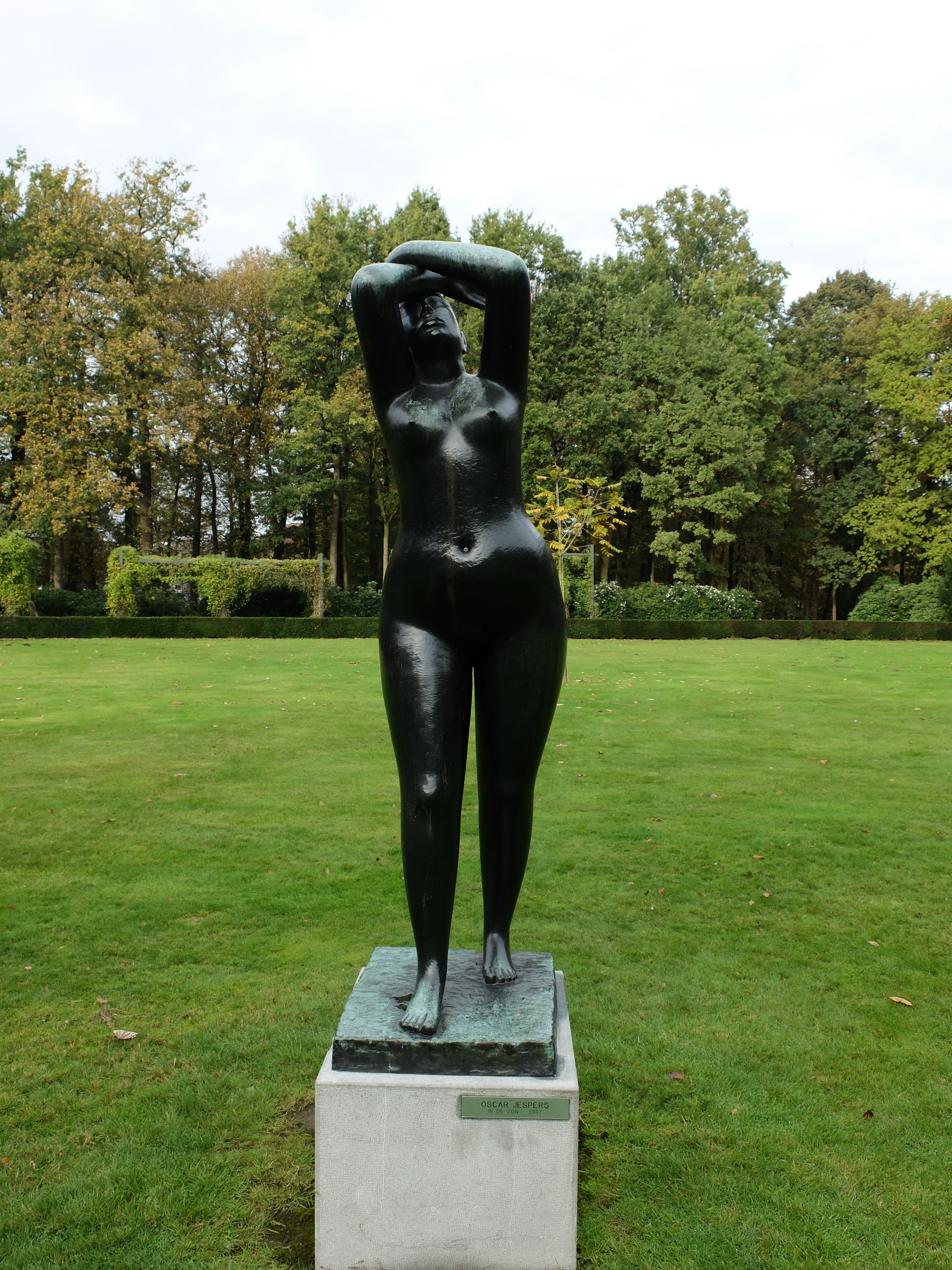 Oscar Jespers: In the sun, 1947. Middelheimpark Antwerp